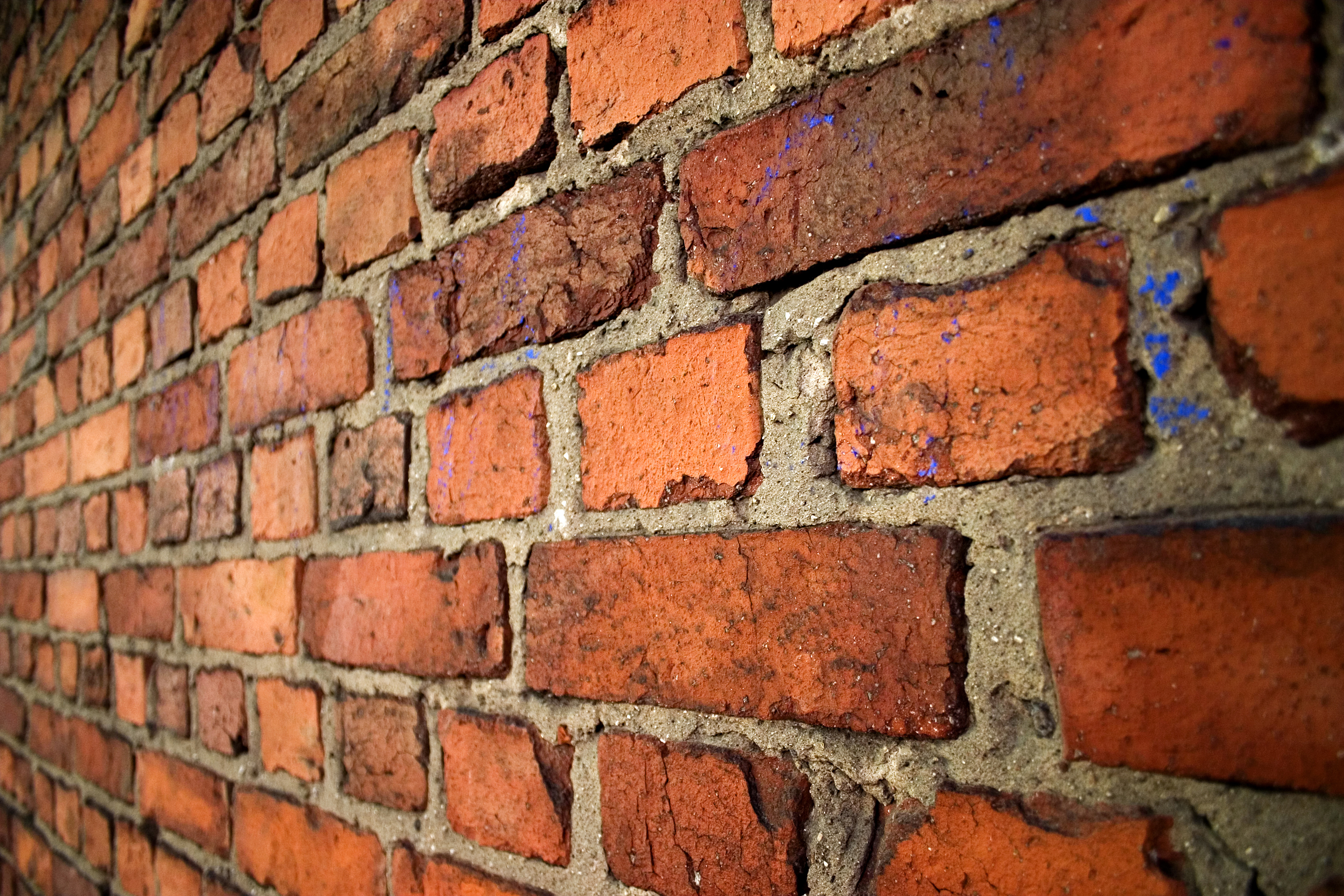 Brick wall in English cross bon pattern.